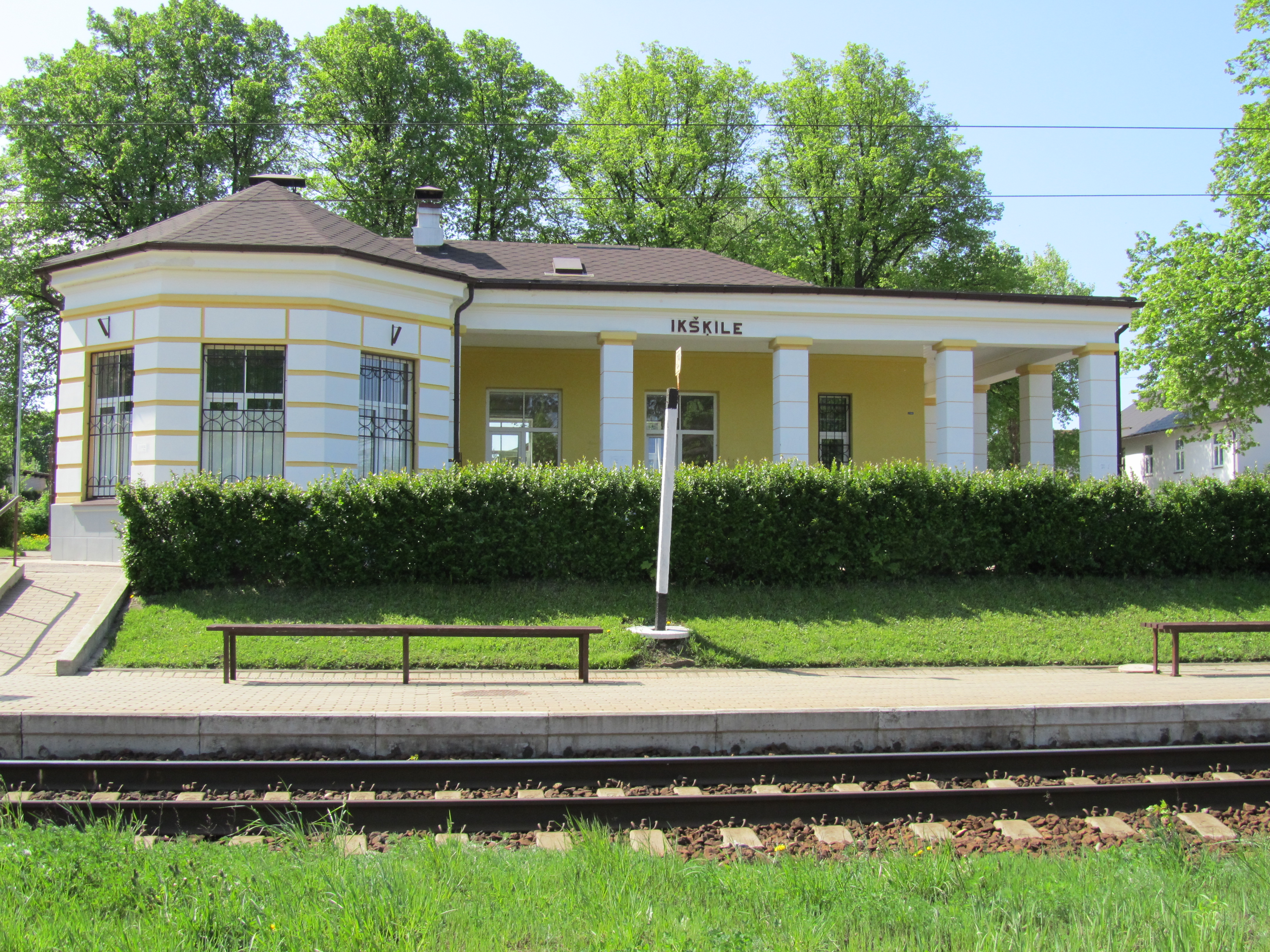 Ikšķile railway station (2011)